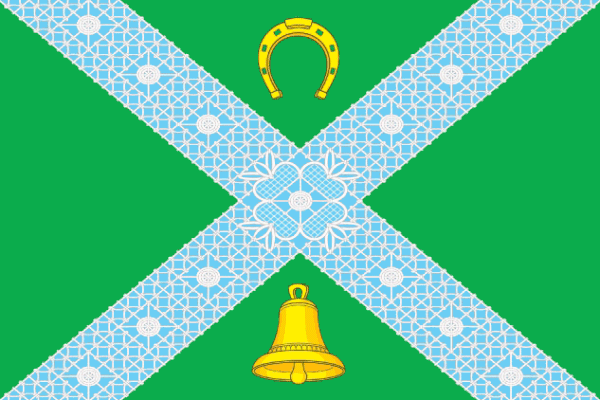 Flag of Krestetsky rayon, Novgorod Region, Russia